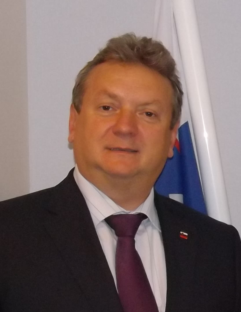 The Slovenian Ambassador to the United Kingdom, His Excellency Iztok Jarc